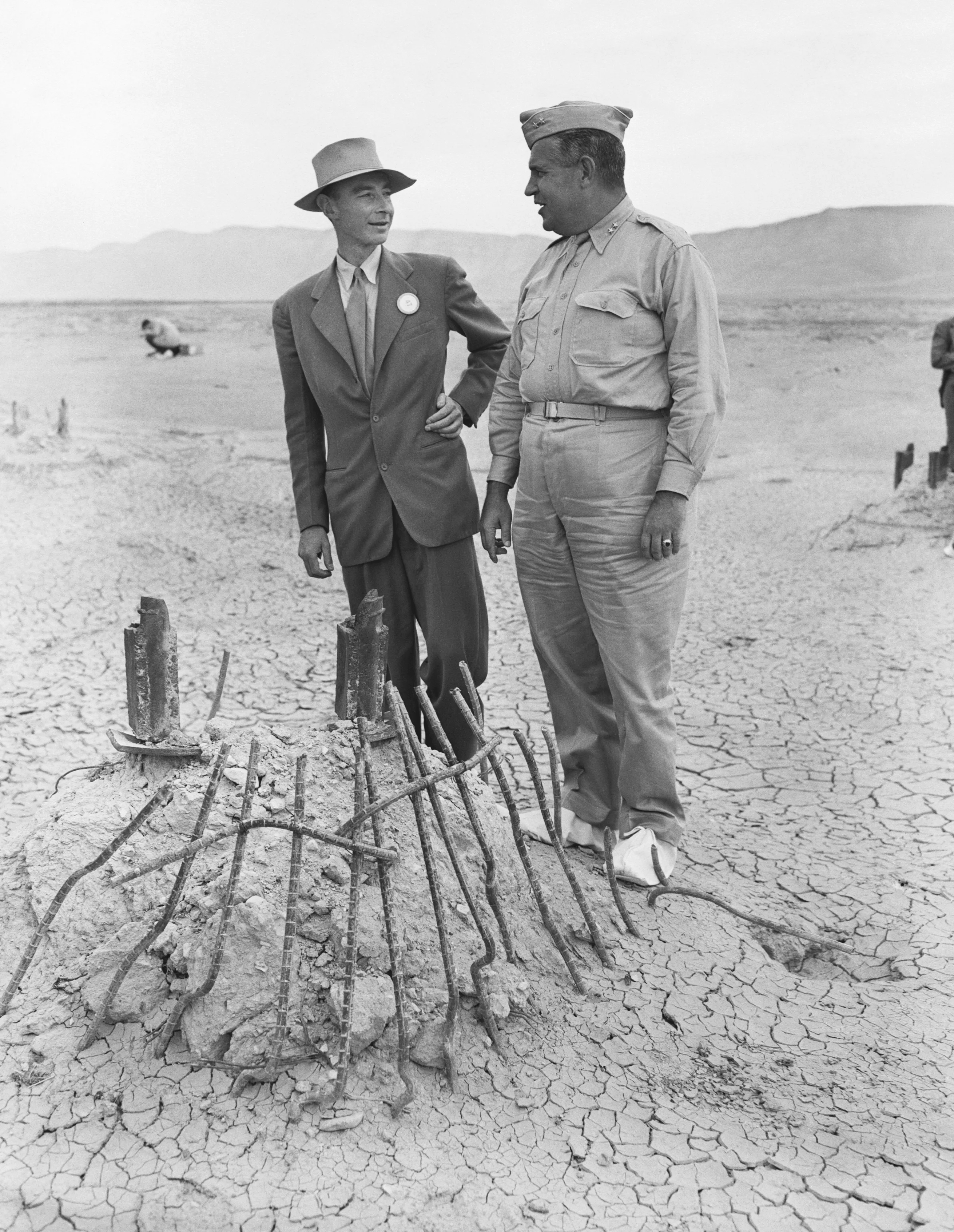 In September 1945, many participants returned to the Trinity Test site for news crews. Here Oppenheimer and Groves examine the remains of one the bases of the steel test tower.